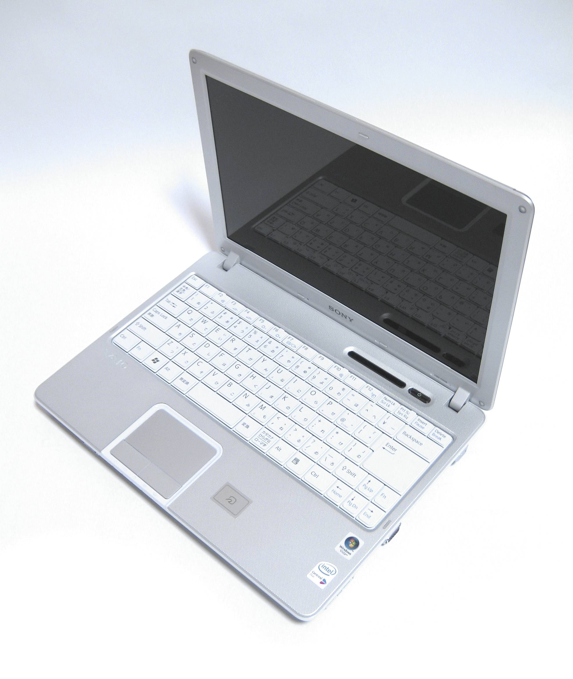 Sony Vaio type C (VGN-C90S).